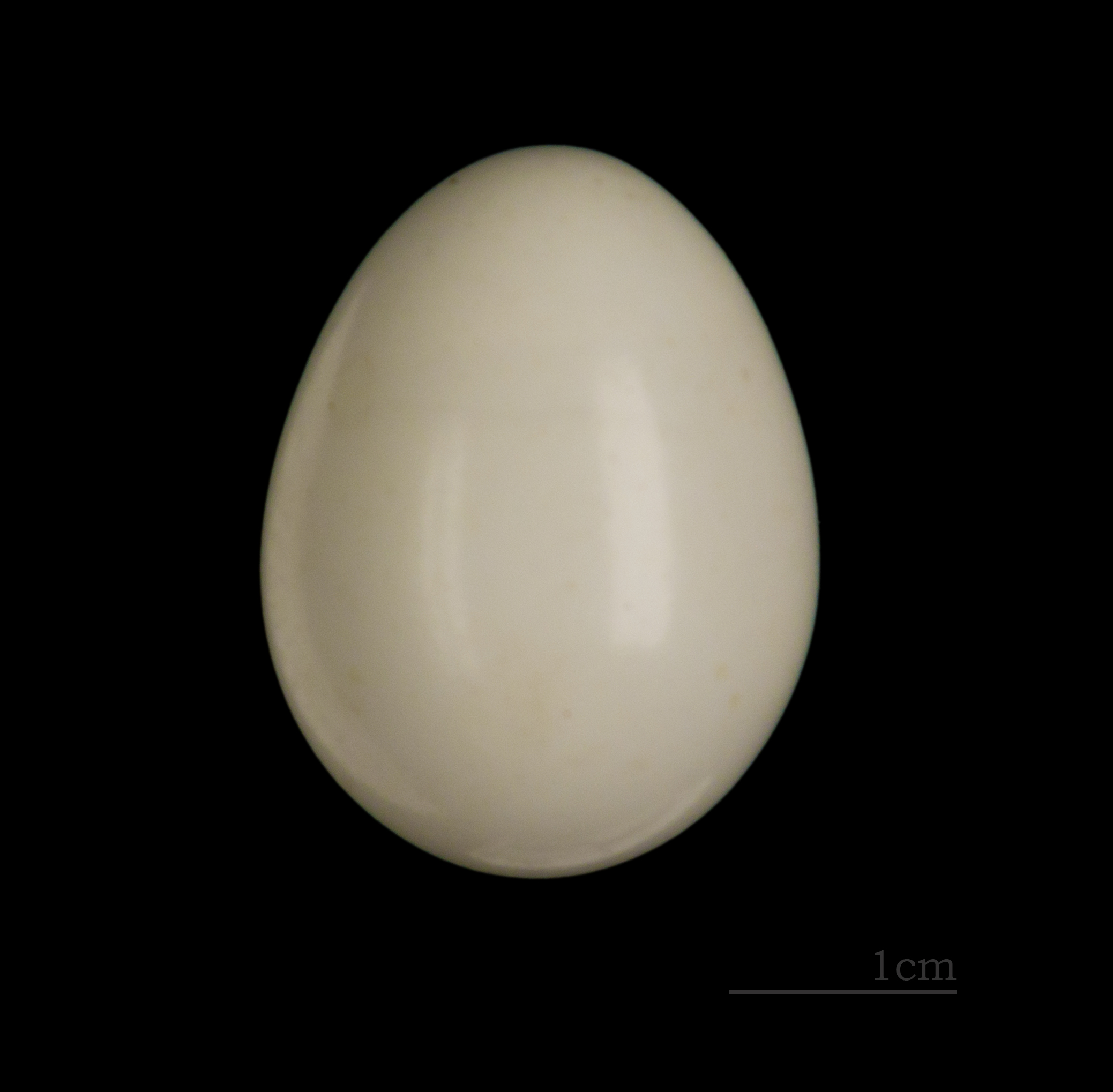 Egg of Levaillant’s Green Woodpecker. Collection of Henri Heim de Balsac/Jacques Perrin de Brichambaut.